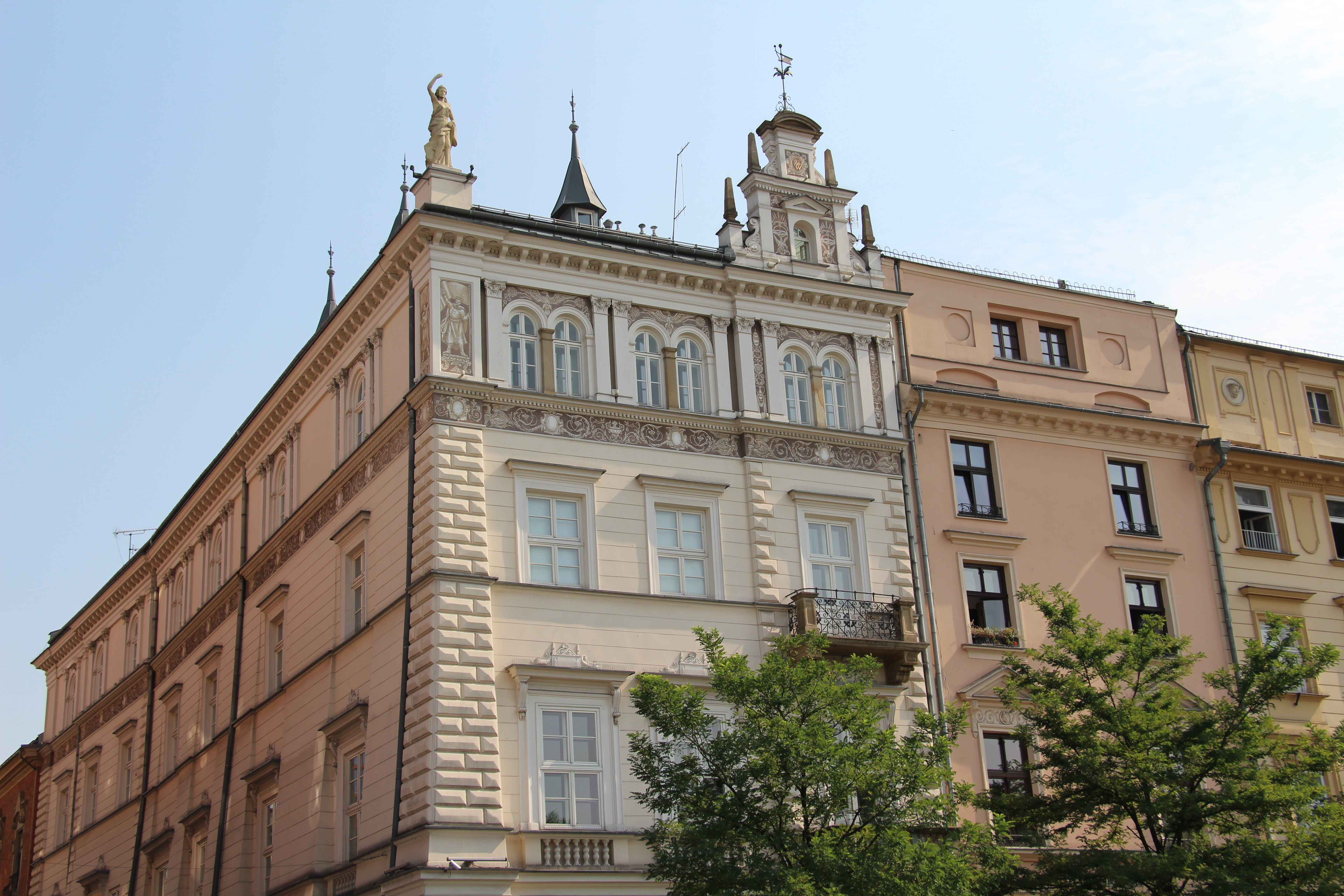 Rynek Główny Renaissance buildings restored under Austrian rule from 1870 to World War I